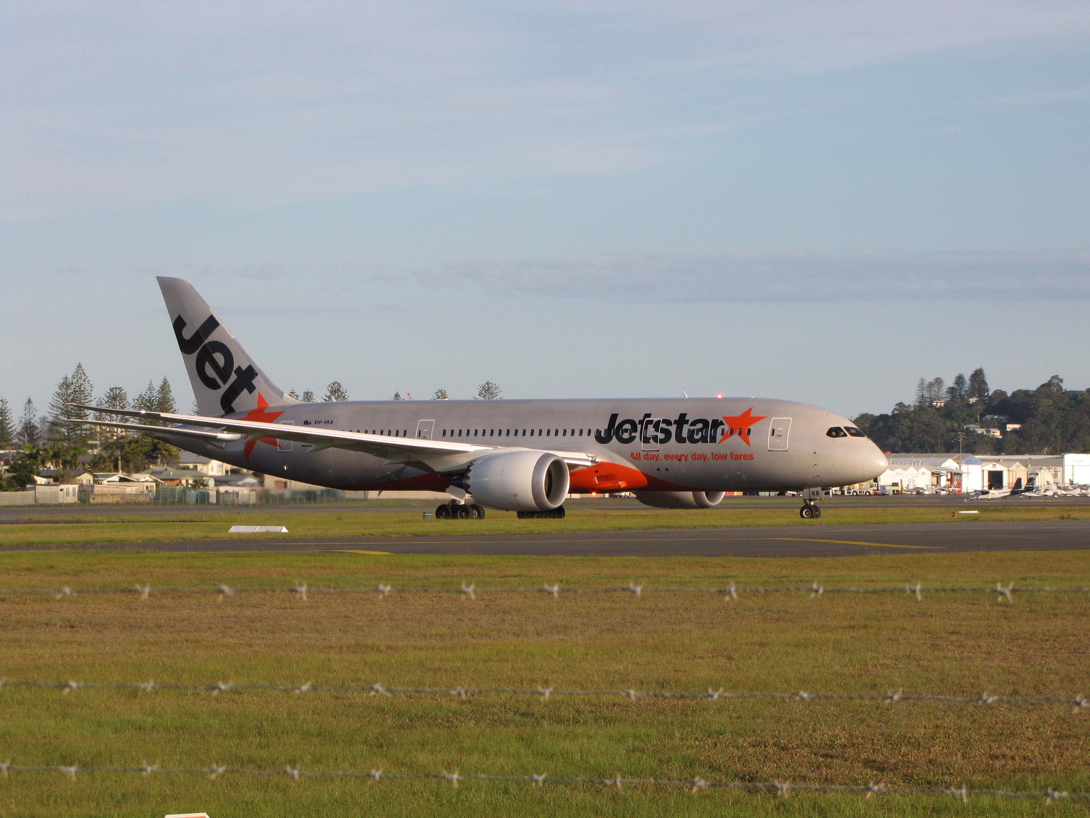 Jetstar's first Boeing 787 Dreamliner VH-VKA preparing for take off at Coolangatta Airport, QLD